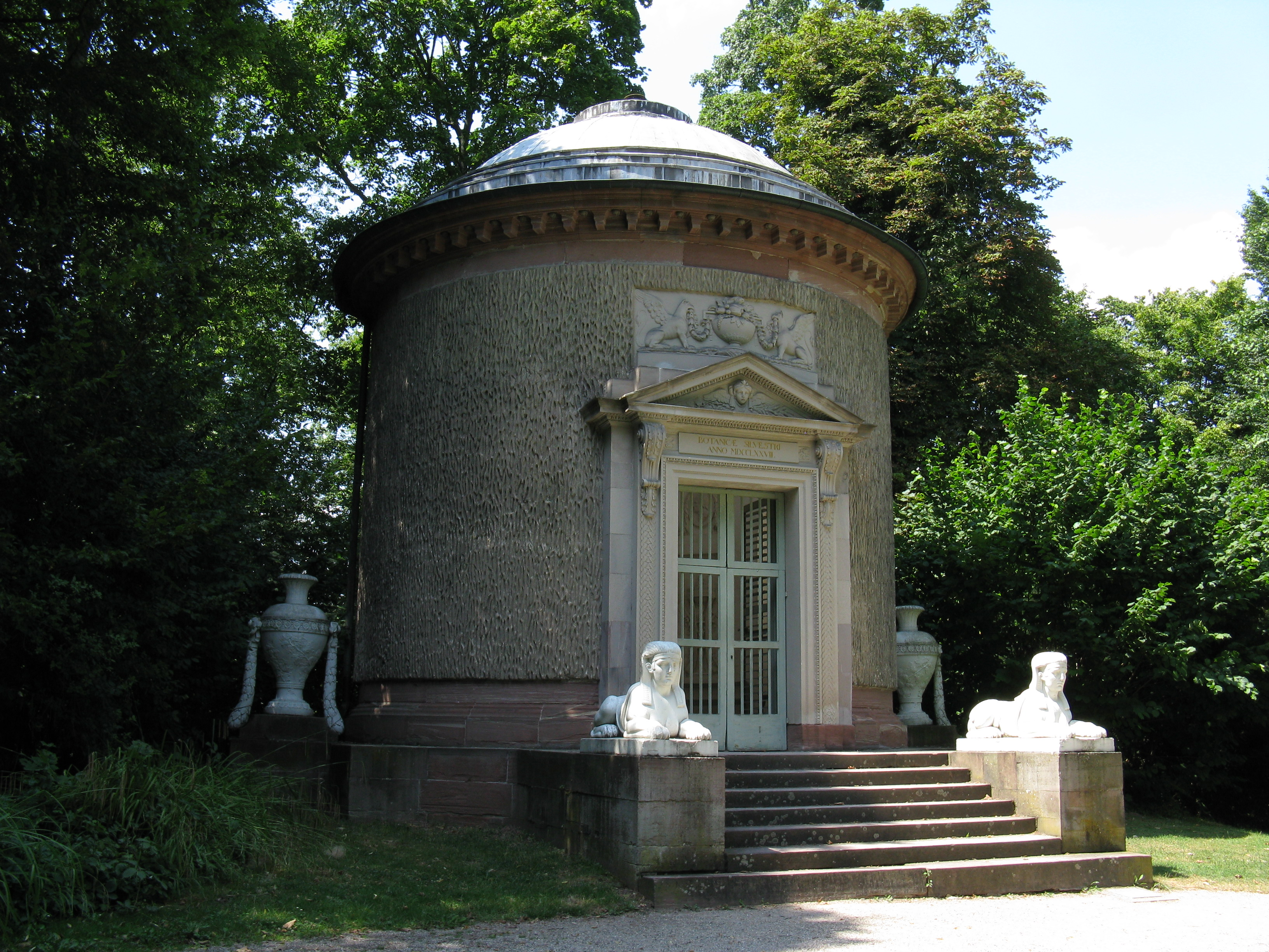 Schwetzingen, Germany, palace garden